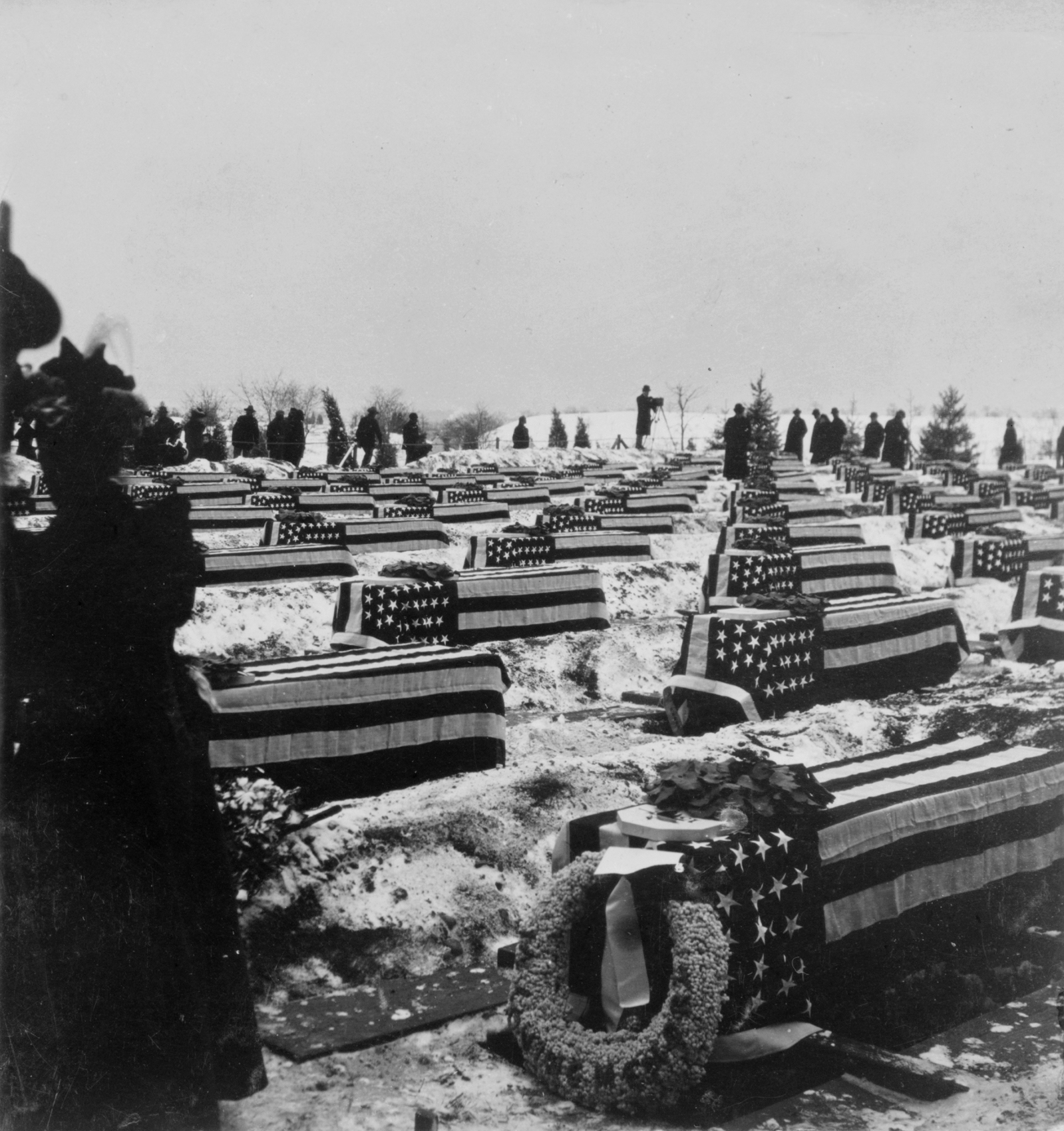 Burial of the dead of the USS Maine at Arlington National Cemetery in Arlington County, Virginia, in the United States on December 28, 1899. Crop of original stereocard, with image defects removed.